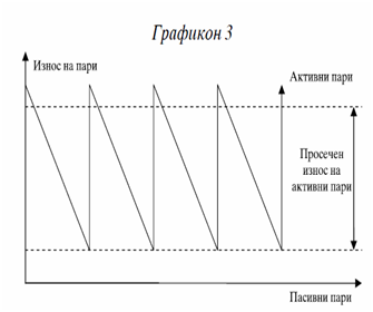 Активни и неактивни пари